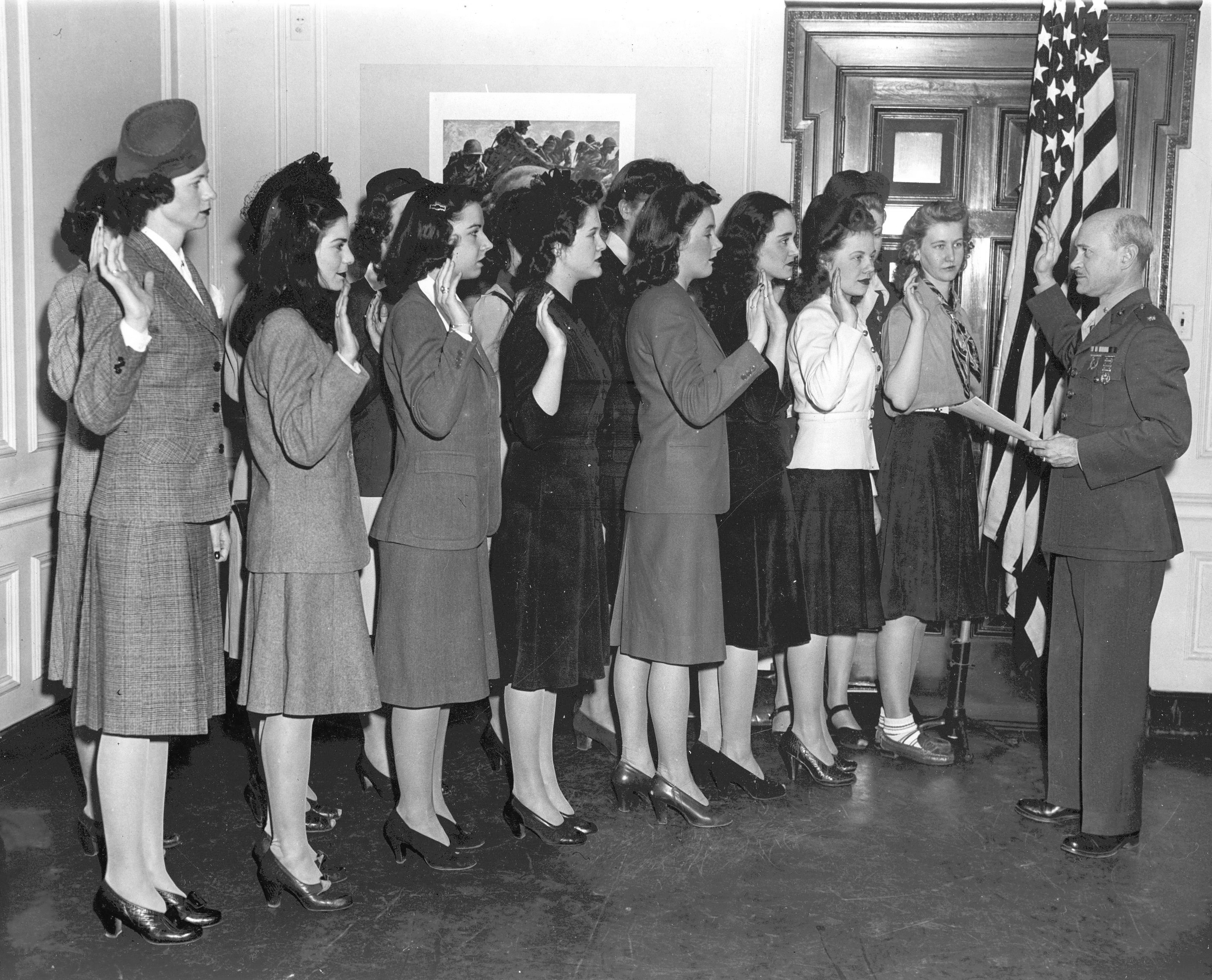 Frank V. McKinless swears in the first Women Marines in the New York area. The induction took place at the Marines' Women's Reserve recruiting office. From the Frank V. McKinless Collection (COLL/5185) at the Marine Corps Archives and Special Collections OFFICIAL USMC PHOTOGRAPH